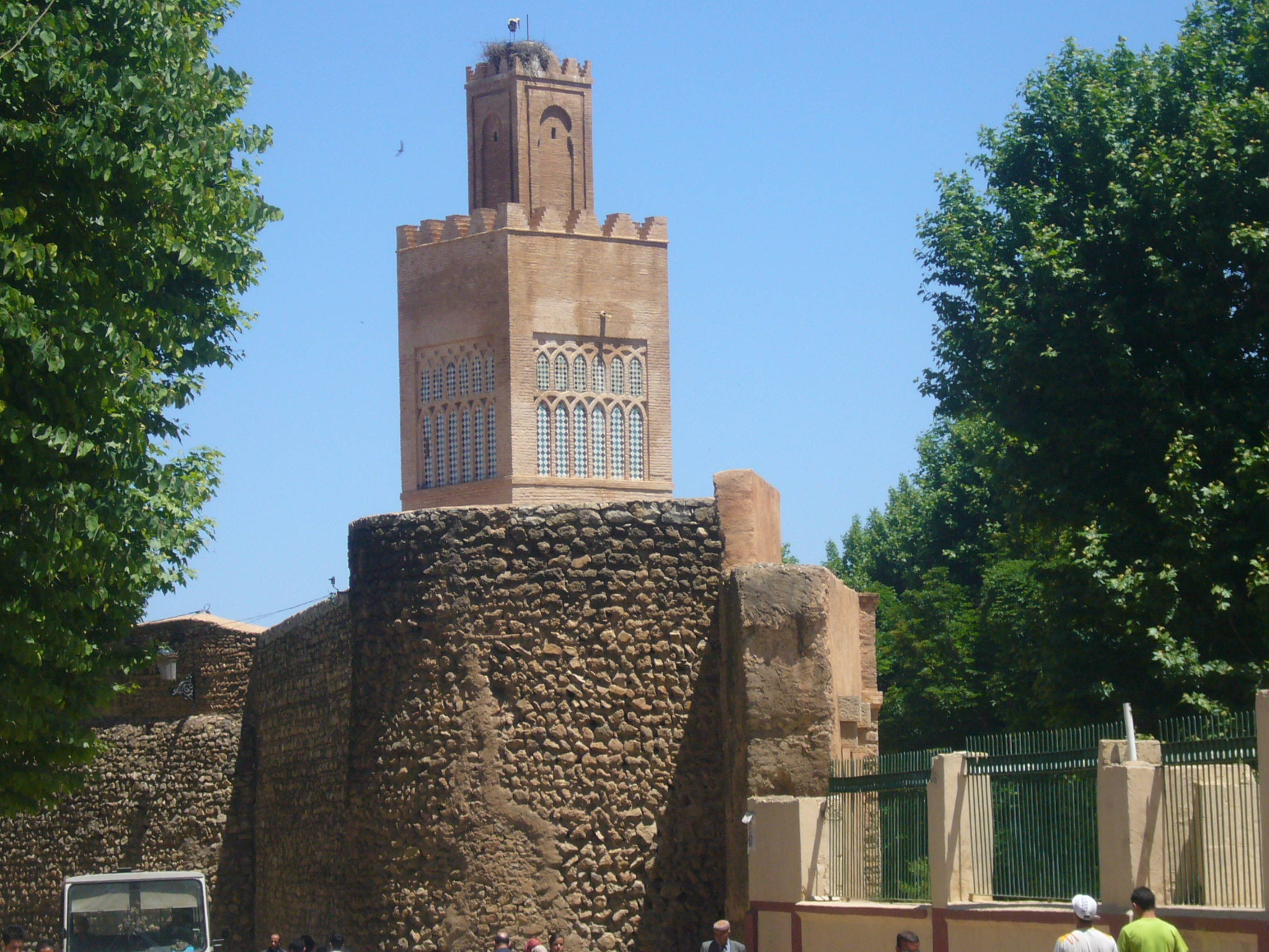 Mechouar (Tlemcen)